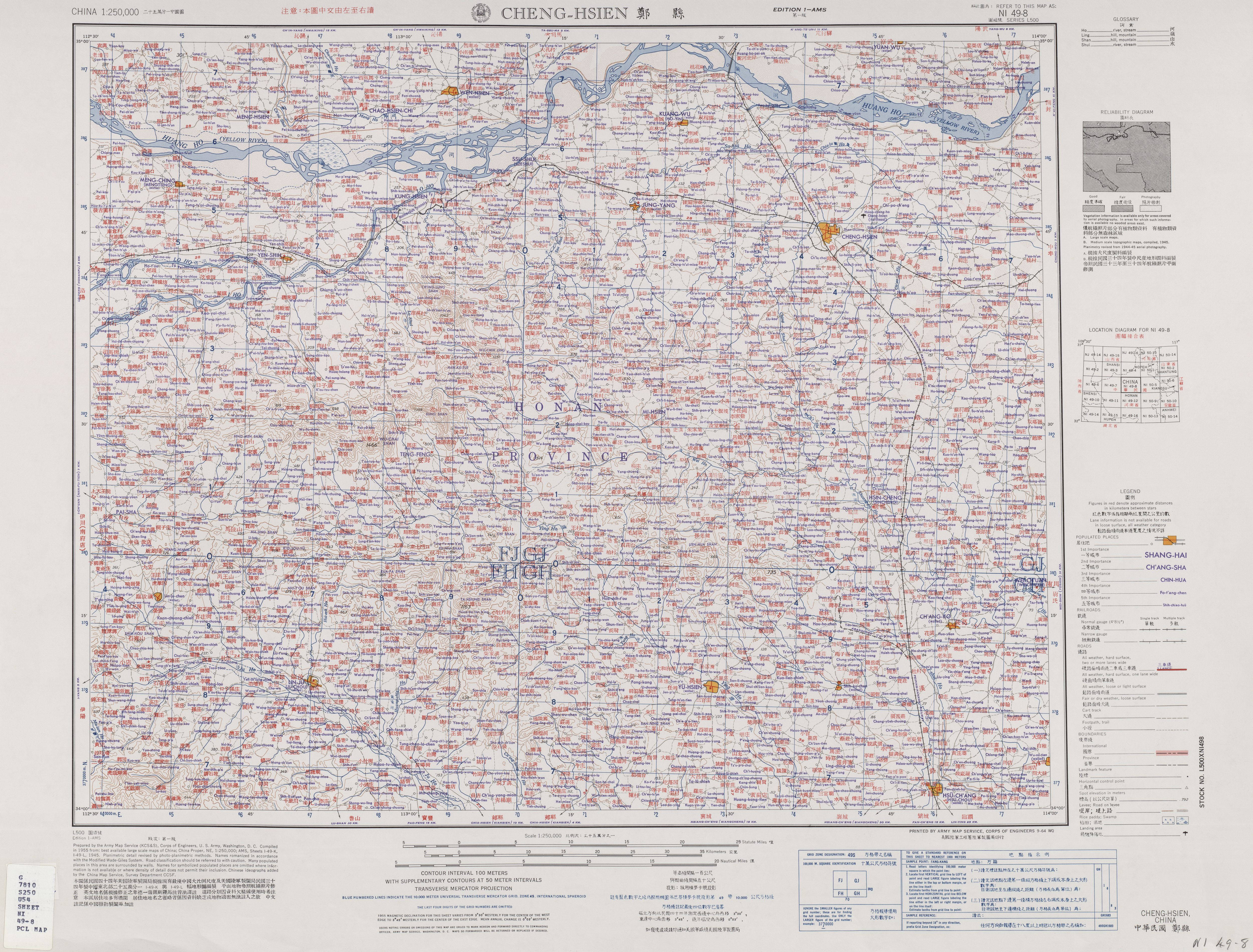 China AMS Topographic Maps